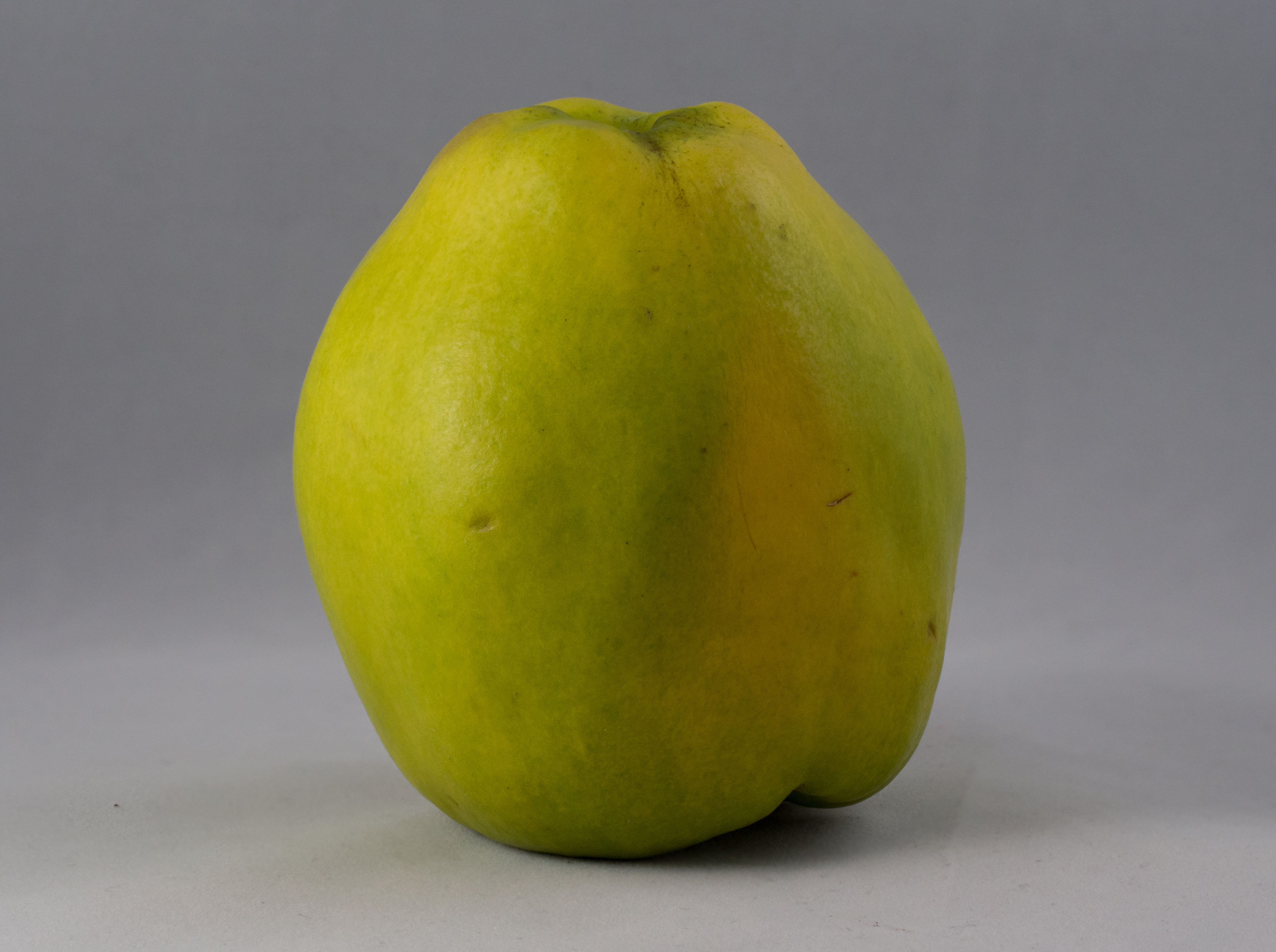 Quince - side.